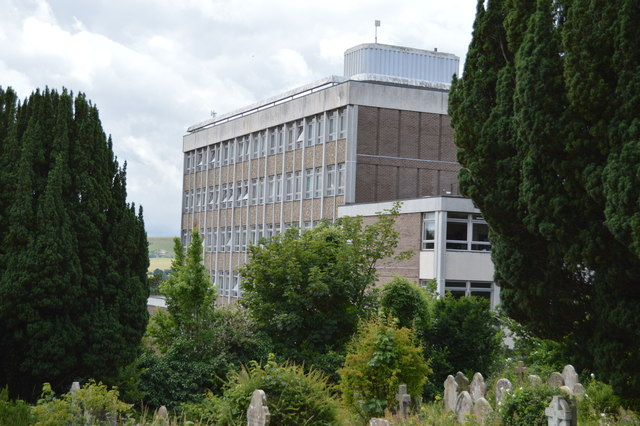 County Hall